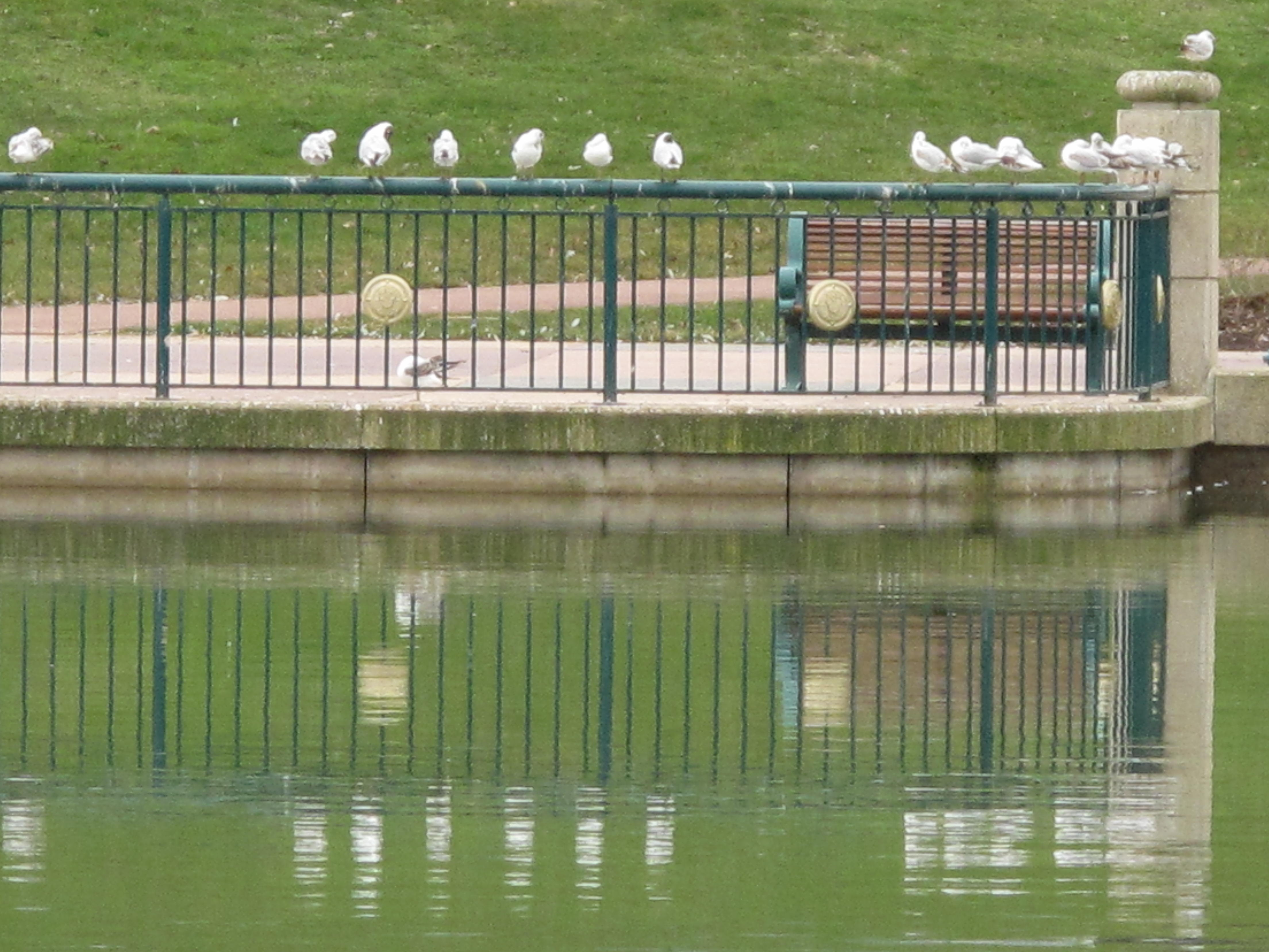 Black-headed Gulls on a barrier on the bank of the lake of Disney-Village, France.